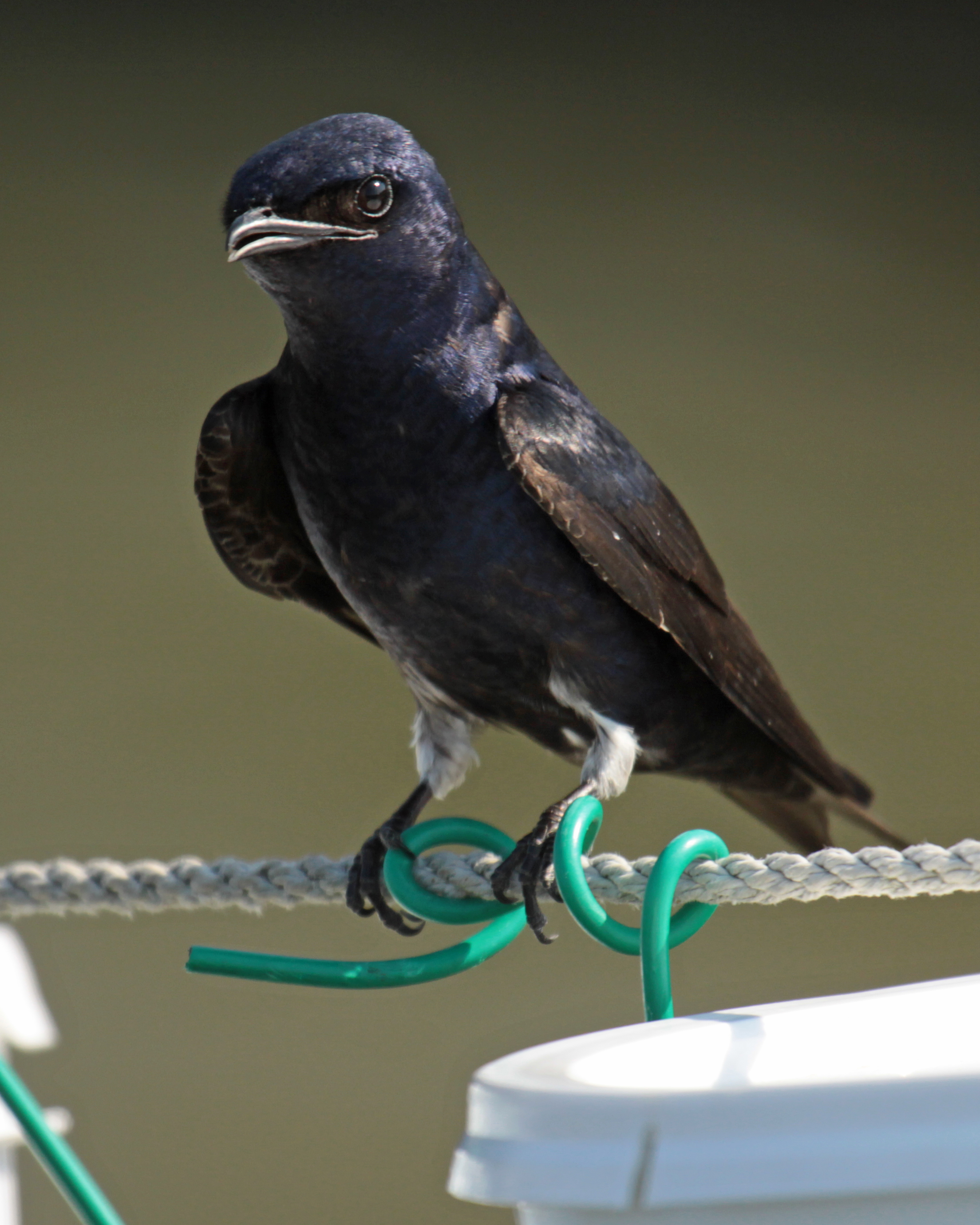 Purple Martin Progne subis, St. George's Island, St. Mary's Co., Maryland